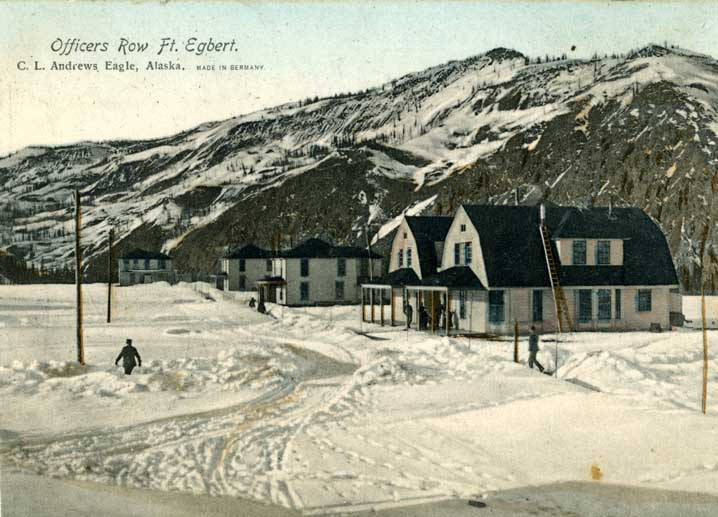 A vintage postcard depicting "Officers Row" at Fort Egbert